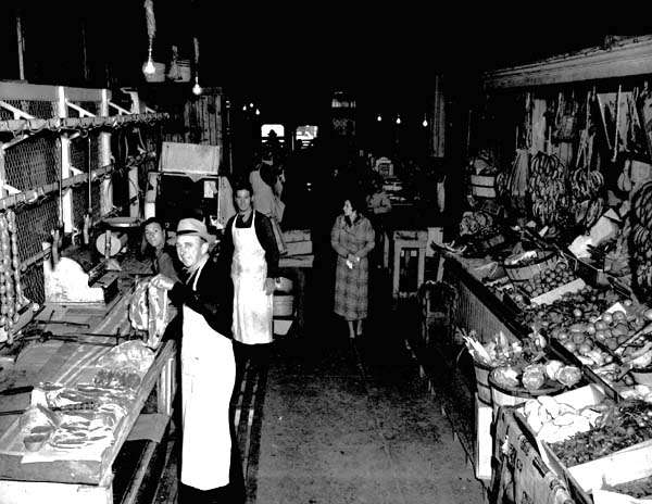 View inside St. Roch Market, New Orleans; 1937 WPA photo. Original caption: "Before renovation photograph of the St. Roch Market (St. Roch and St. Claude Avenues). This was one of four markets overhauled by WPA. Two other markets were constructed under the program. Interior."